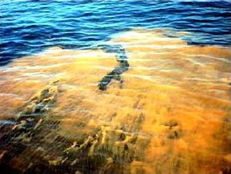 a red tide